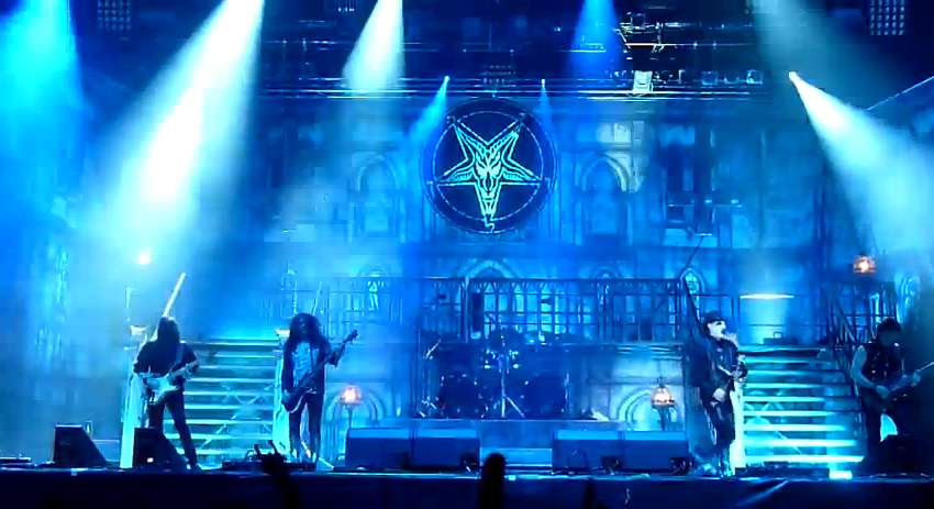 King Diamond performing live at Hellfest 2012.